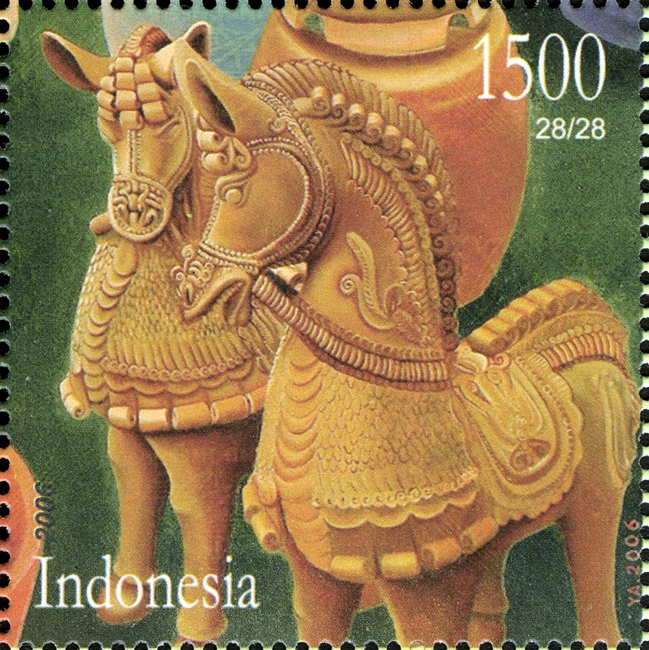 Stamps of Indonesia